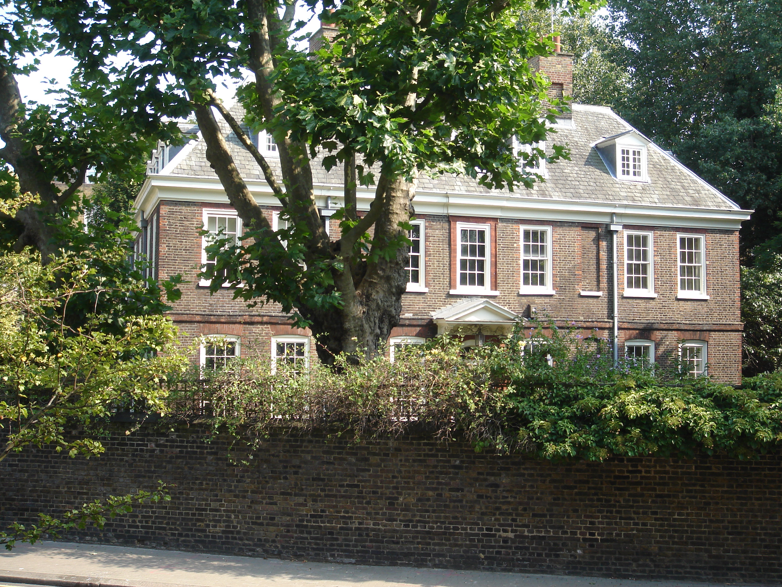 Old Battersea House, 30 Vicarage Crescent, London SW11